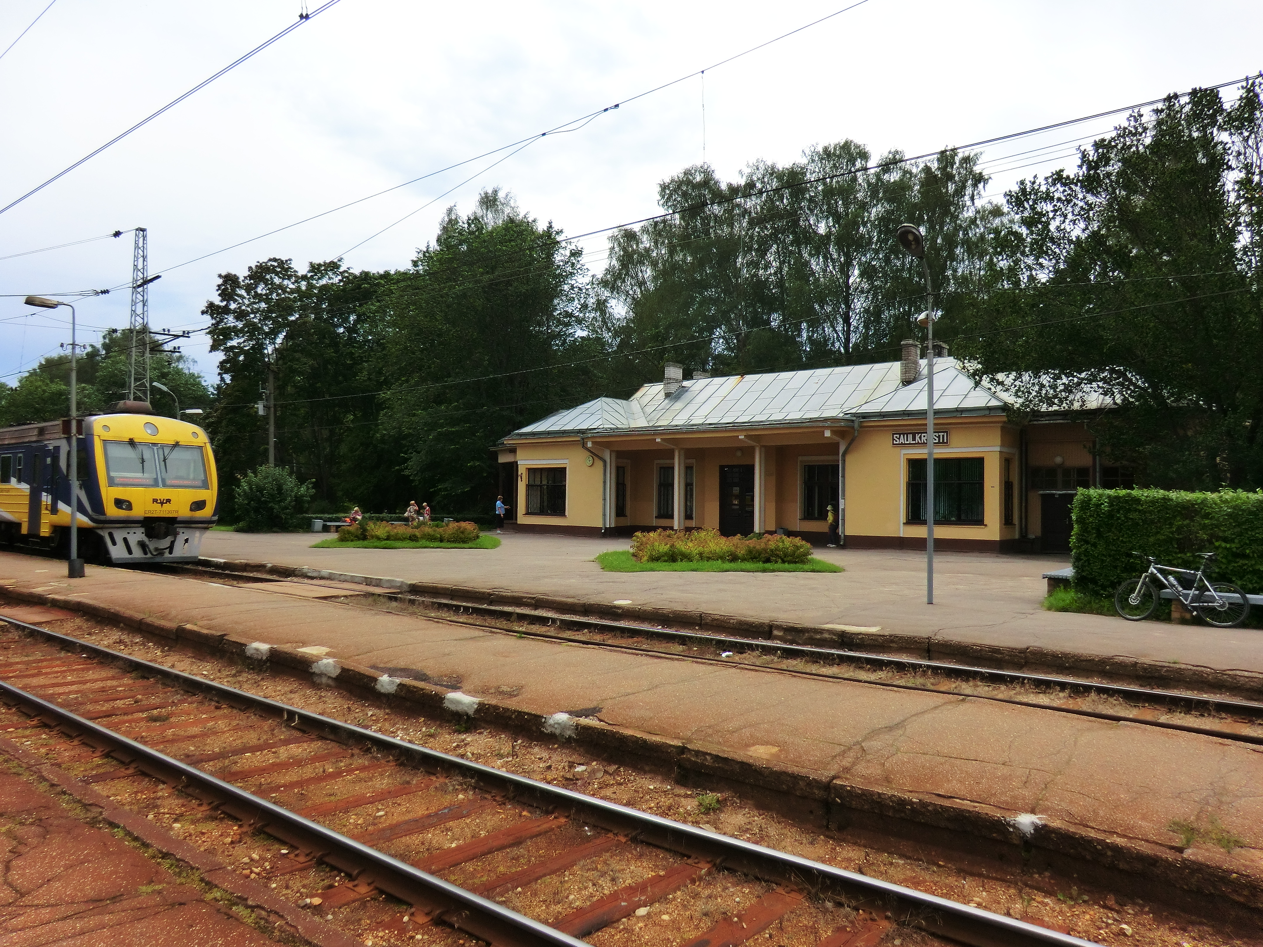 Saulkrasti railway station